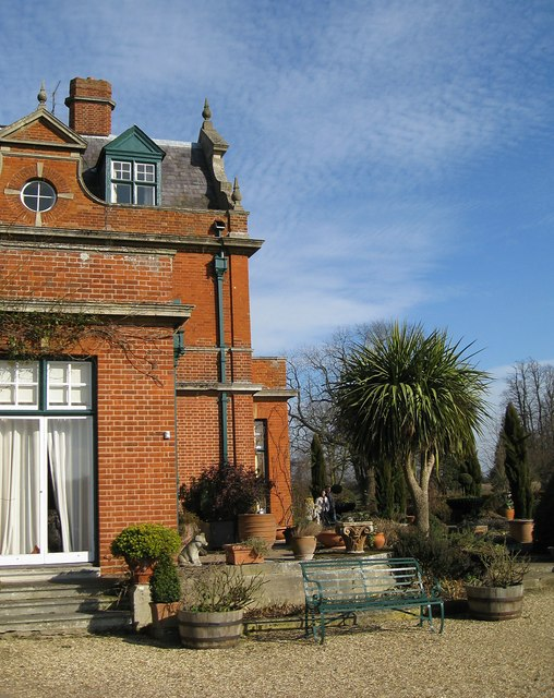 Chippenham Hall and Terrace The terrace garden is supplemented by many pots.